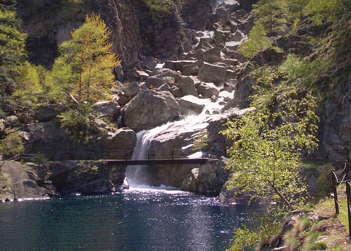 Lago di Antrona Picture taken by user Idéfix , may, 2005